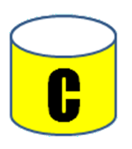 This is a depiction of a football team captain armband.